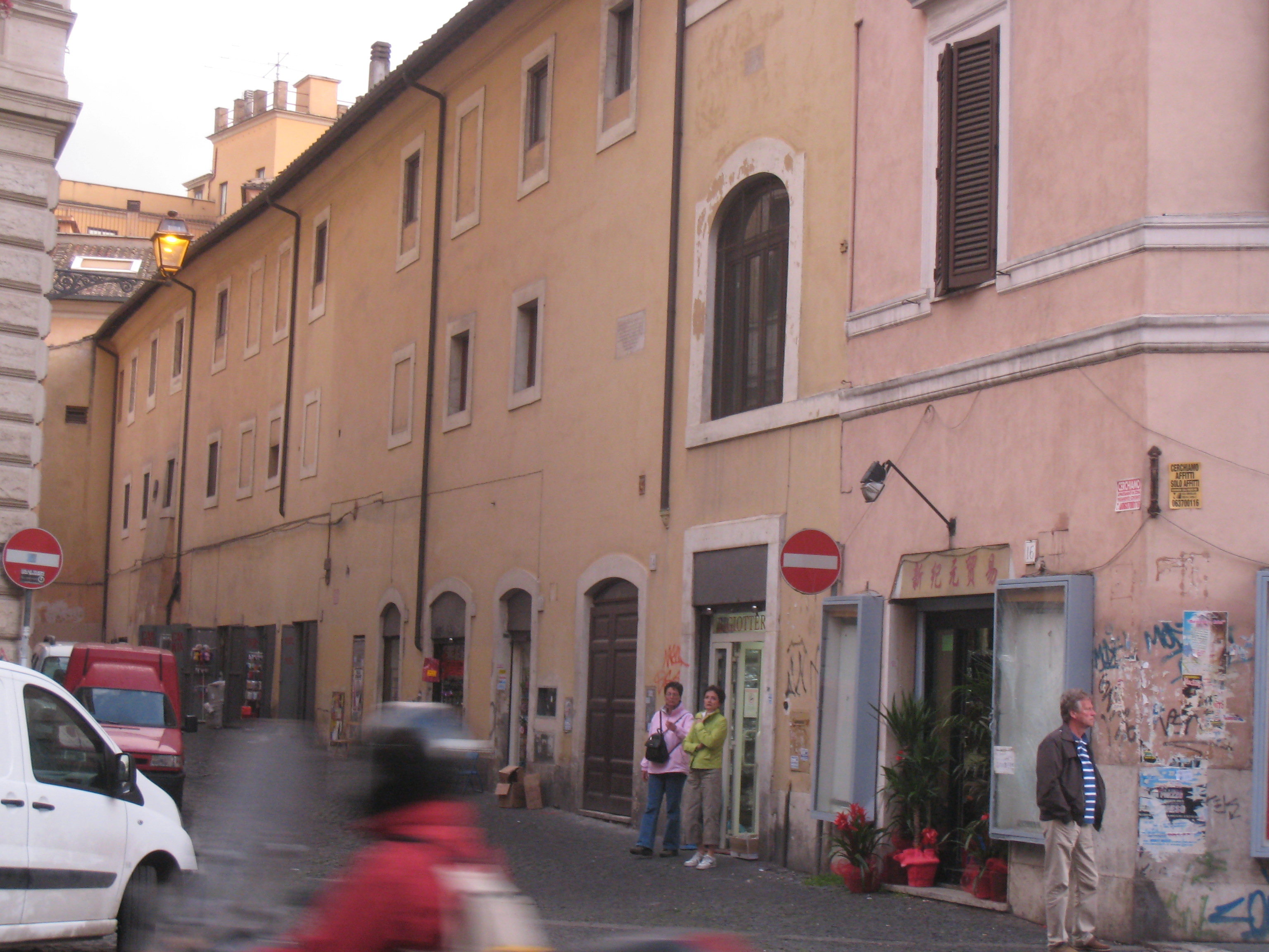 via di San Vito, Rome